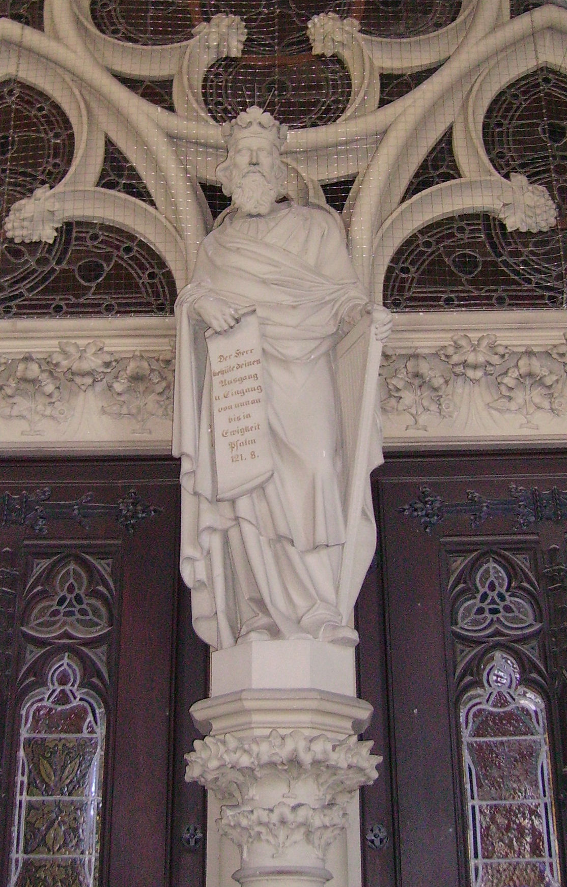 Gedächtniskirche (Memorial Church) in Speyer, Germany